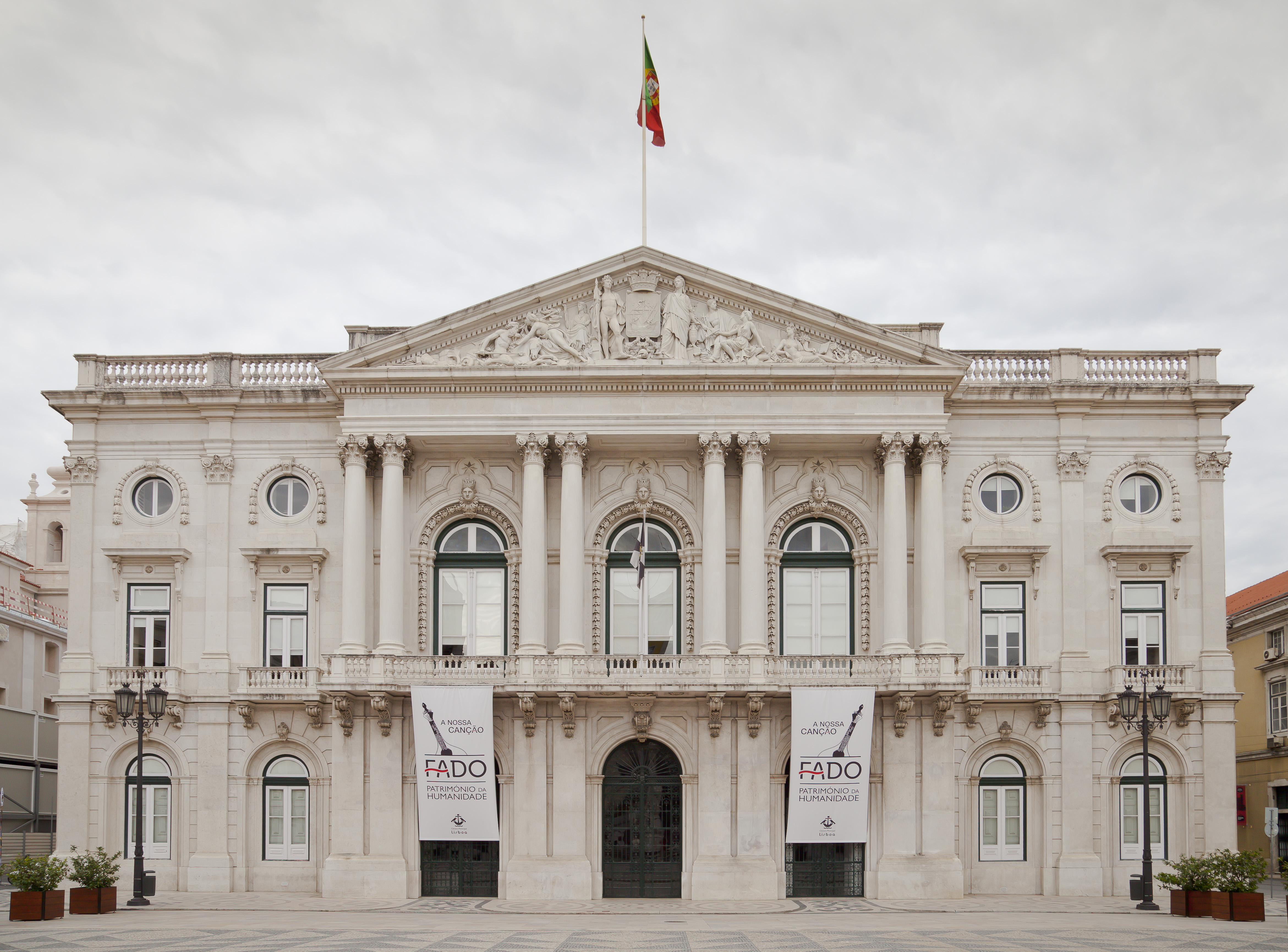 Lisbon Town Hall, Lisbon, Portugal